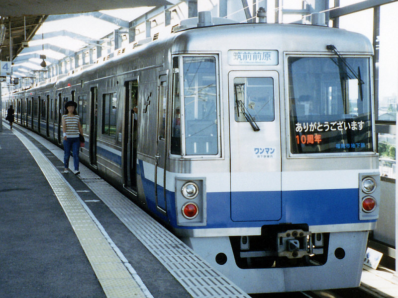 Fukuoka City Subway 1000 series EMU at Meinohama Station